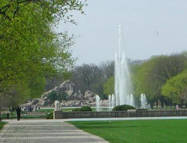 Photograph of central fountain and ibex exhibit at Brookfield Zoo, Brookfield, IL.